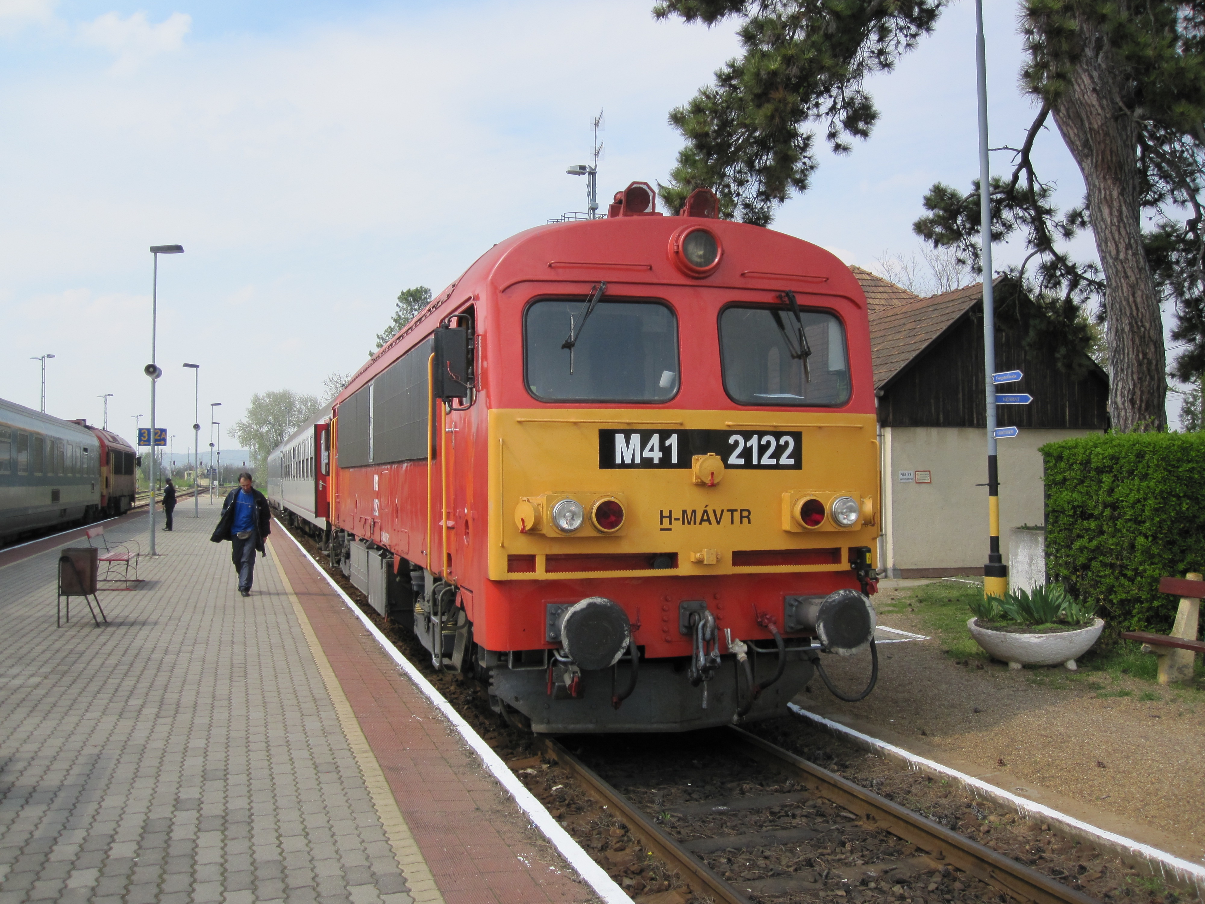 More Hungarian cross-border activity! Here at Magyarbóly the Budapest to Sarajevo services are booked to cross. M41 2122 is seen on the 2-coach working heading from Budapest to Sarajevo, one coach of the two Bosnian railways (ŽRS & ŽFBH). On the opposite platform, the northbound working is formed with two MÁV air-conditioned coaches. The M41s take changeover to/from V43 electrics at Pécs where more MÁV coaches operate as an IC to/from Budapest.